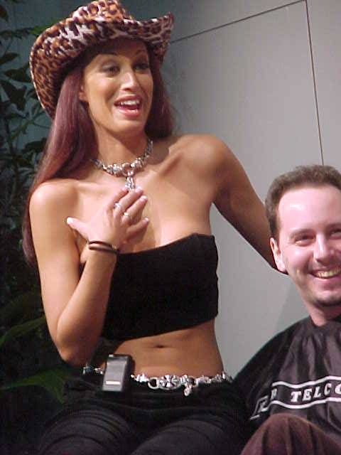 Nikki Nova at IA2000 - January 9-12 In Las Vegas